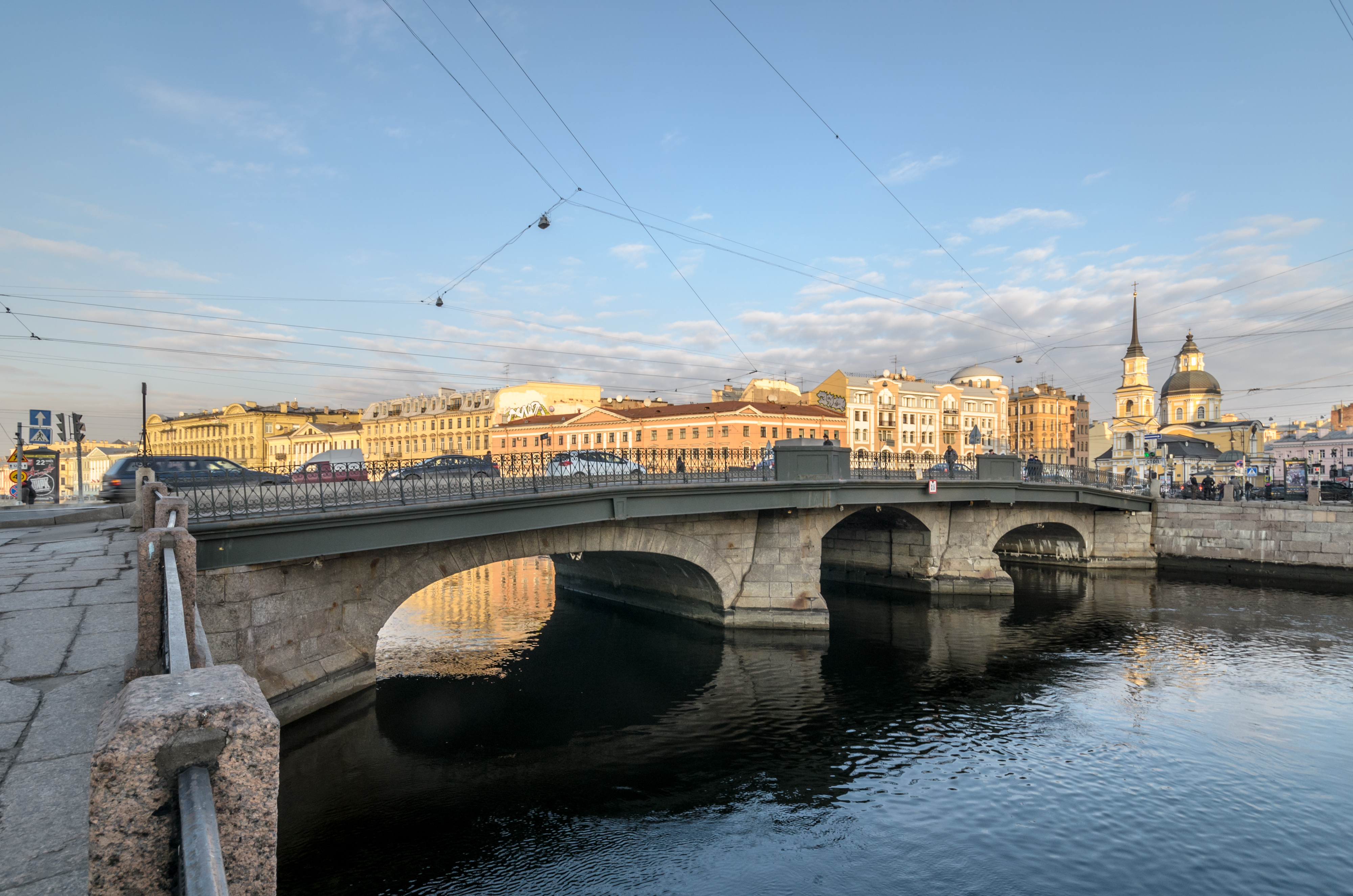 Belinskogo Bridge in Saint Petersburg